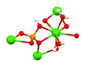 Zoom-in around one Ca center showing the H's on water ligand and HPO42-.